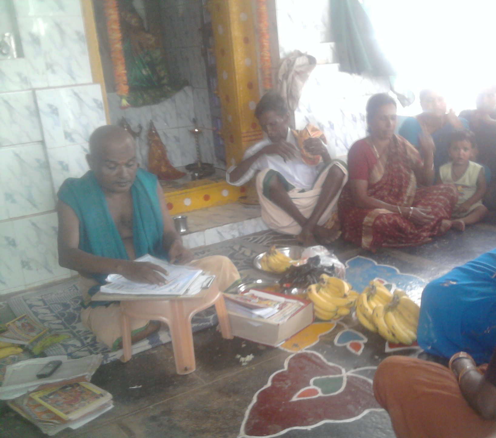 Hindu Marriage muhurtam write on paper